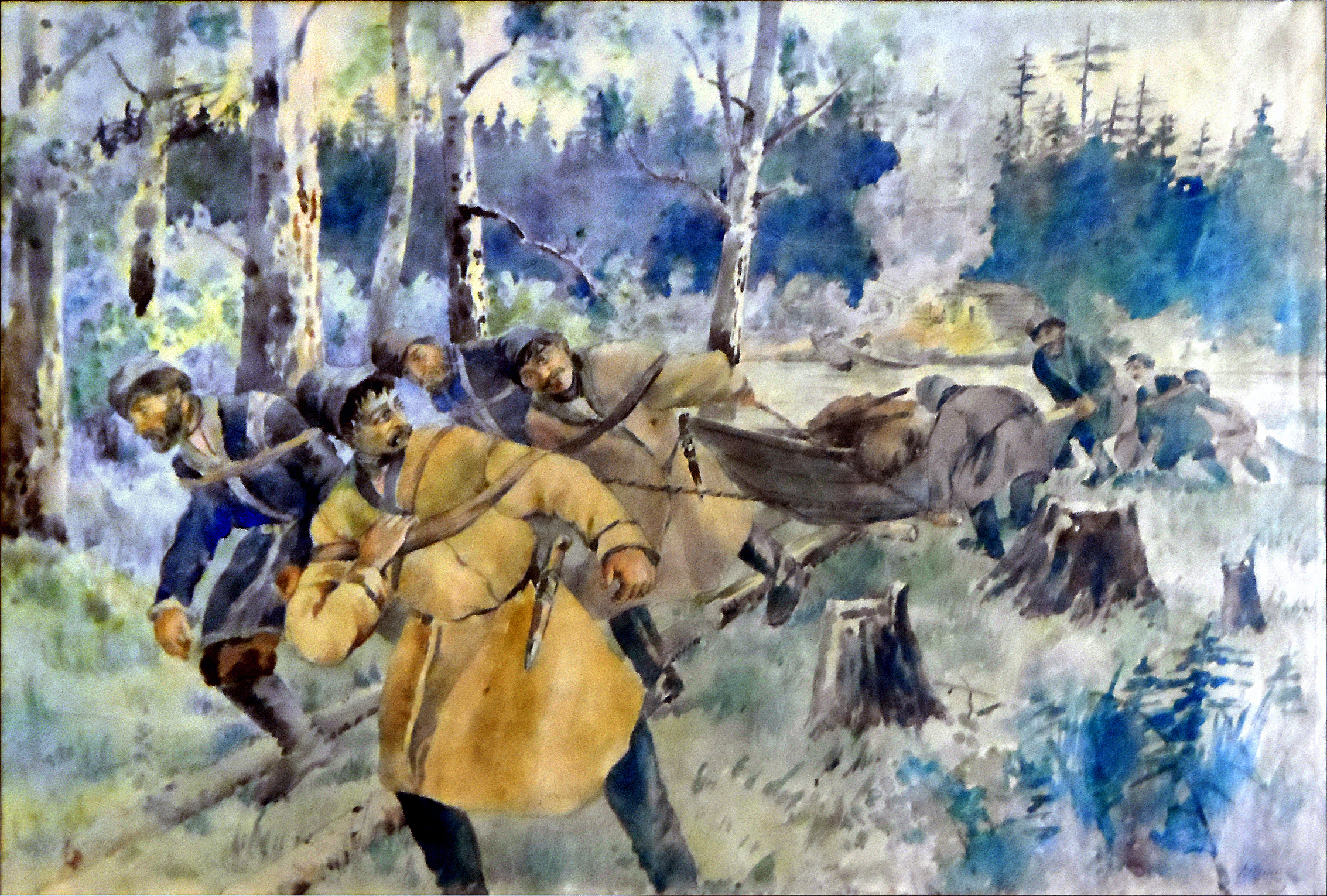 "Advancement of the Promyshlenniki to the East" by V.G. Vagner (1880-1942), based upon the sketch by Dmitry Karatanov (1874-1952). From the collection of the Krasnoyarsk Kray Museum.